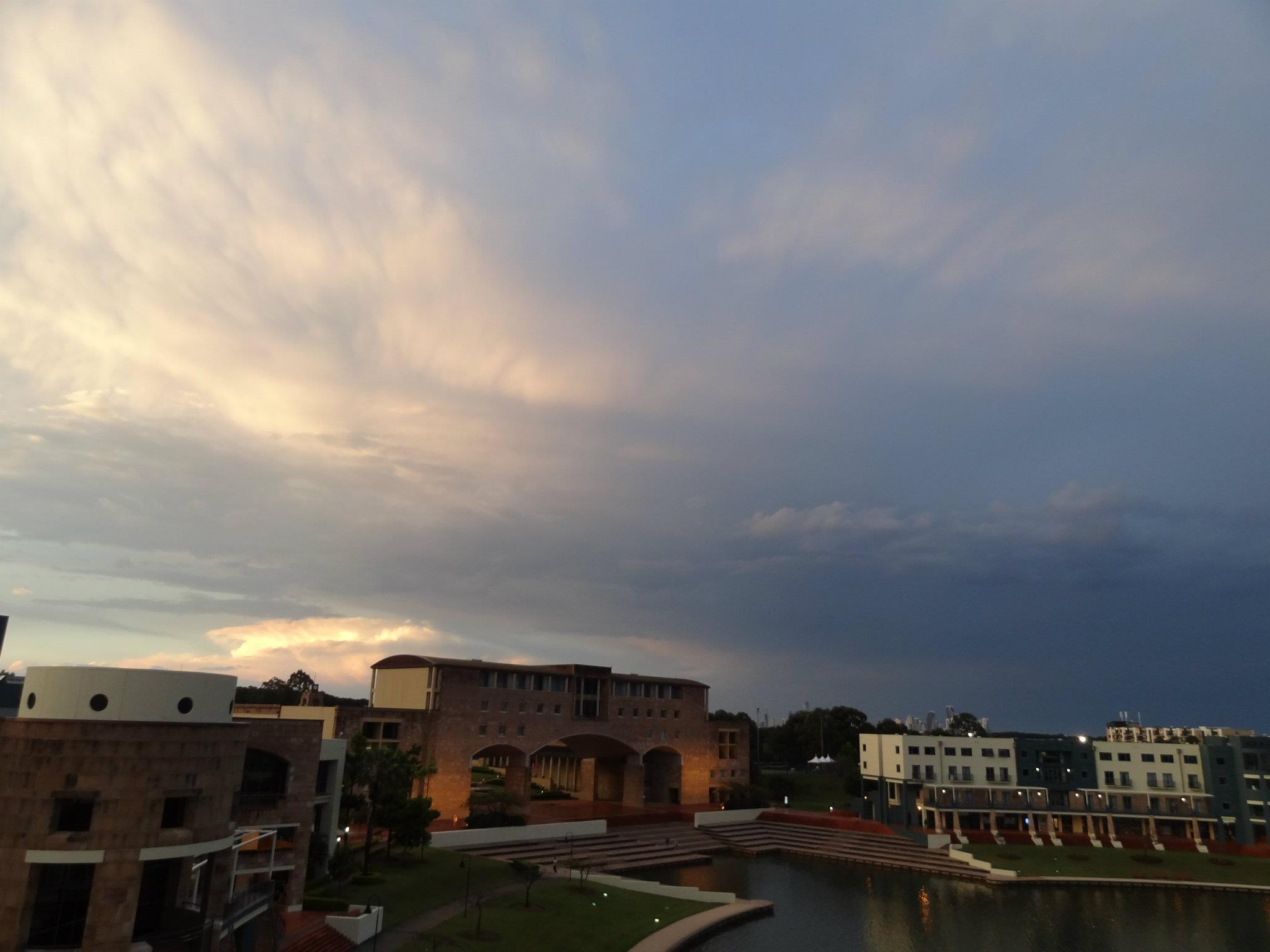 Bond University at Sunset